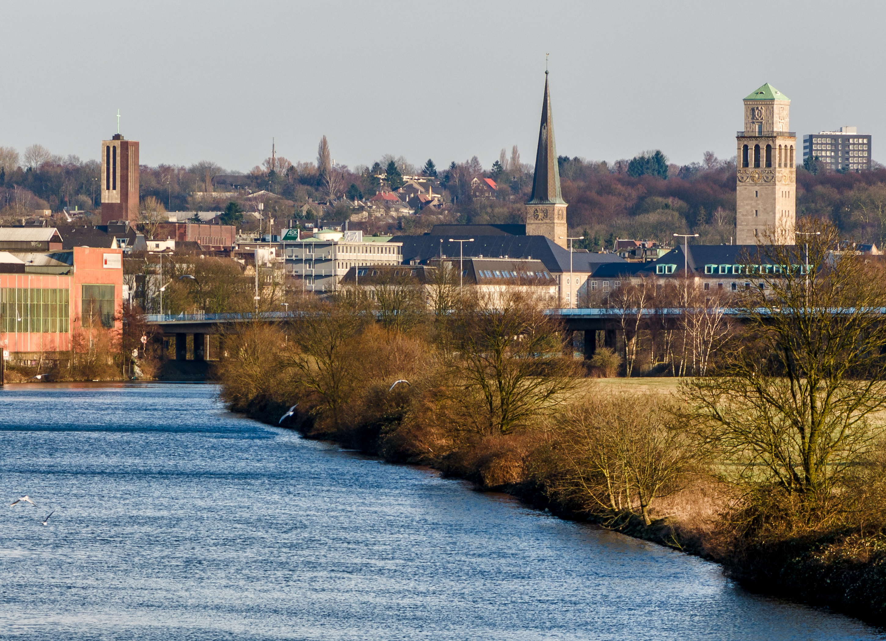 Partial panoramic view on Mülheim an der Ruhr from "Styrumer Brücke" NE